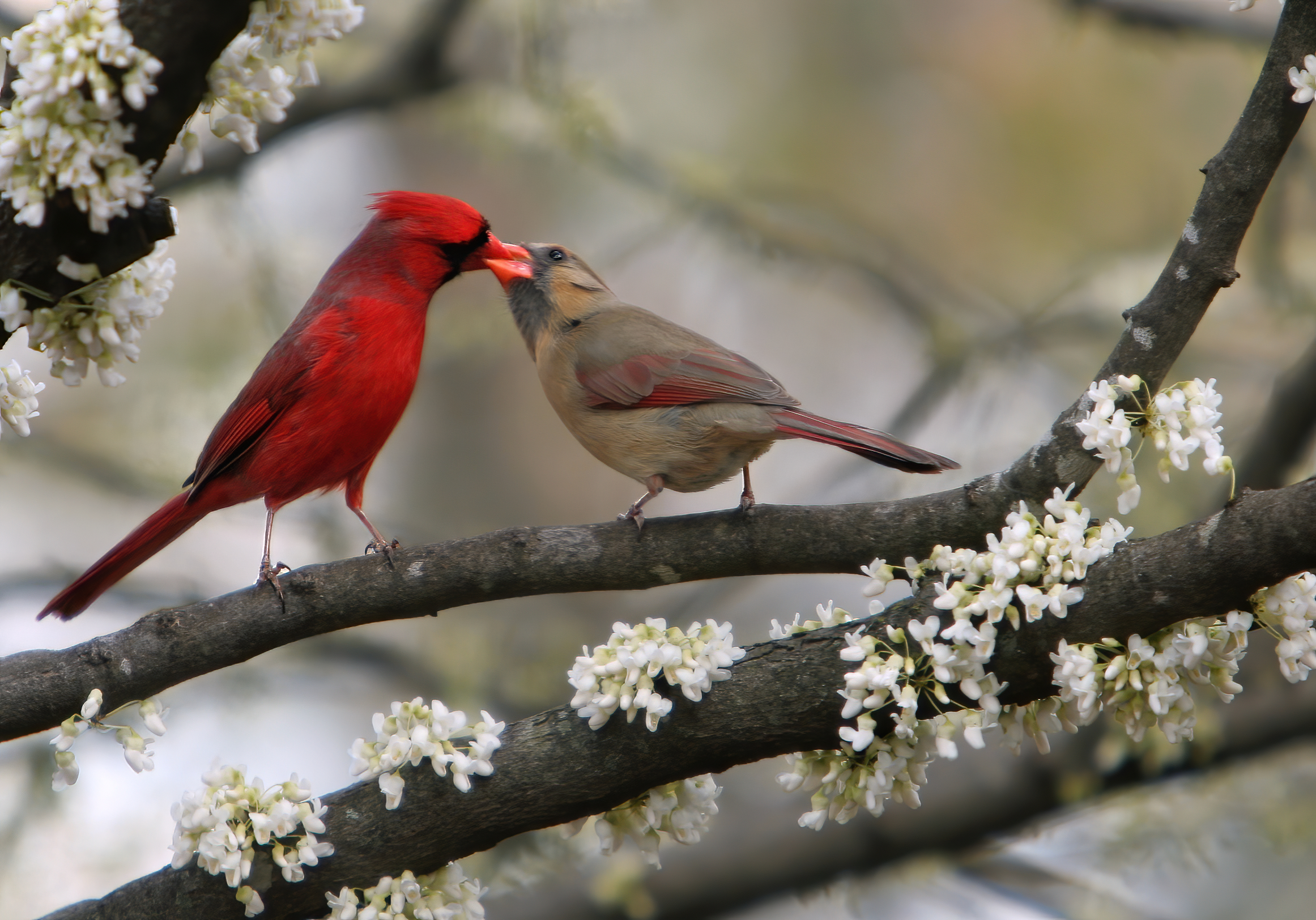 Cardinalis cardinalis male feeding female, in a white-flowered Cercis canadensis